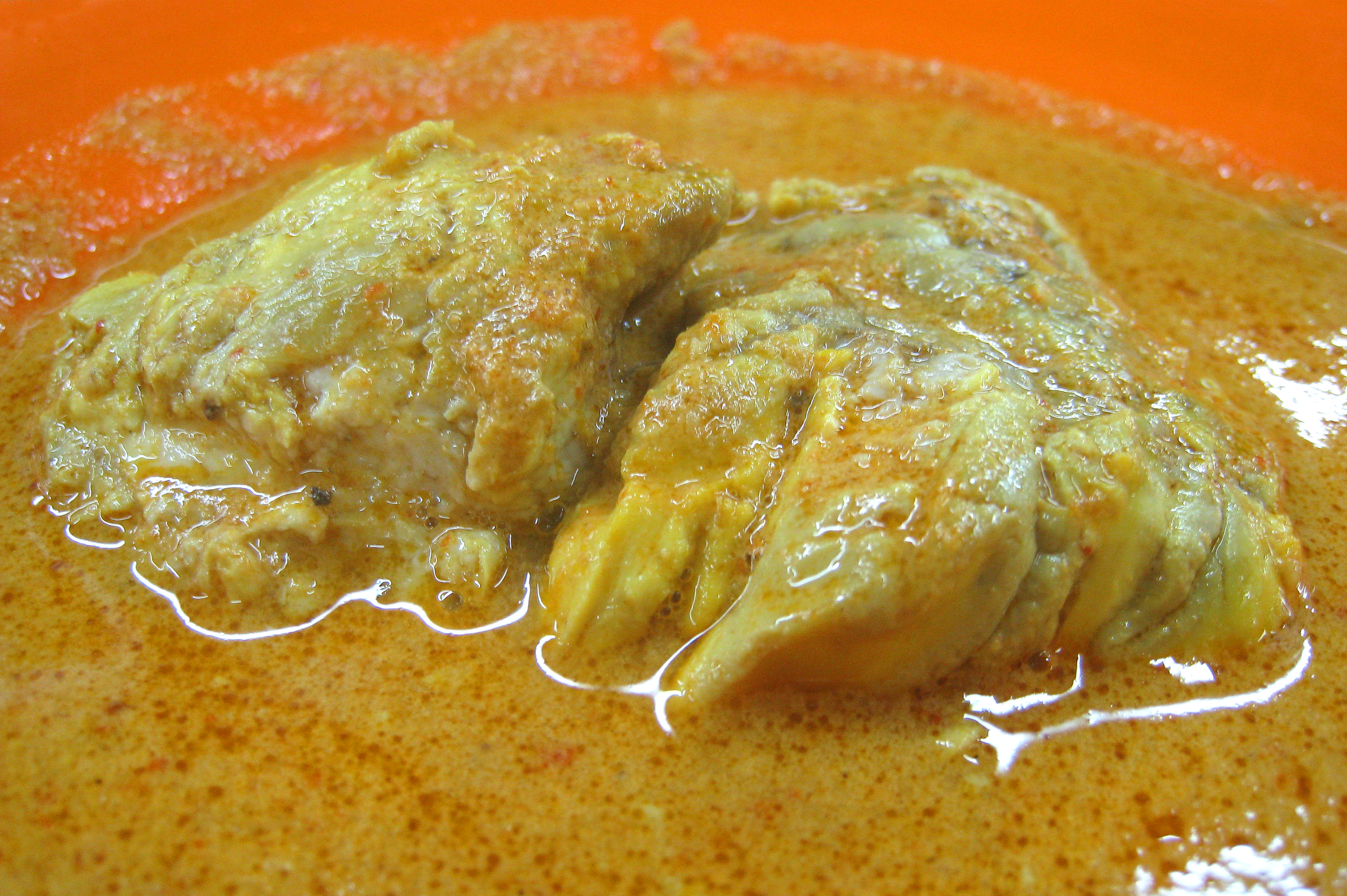 Padang food Gulai Otak (brain curry), an offal dish from Minangkabau, West Sumatra, Indonesia.